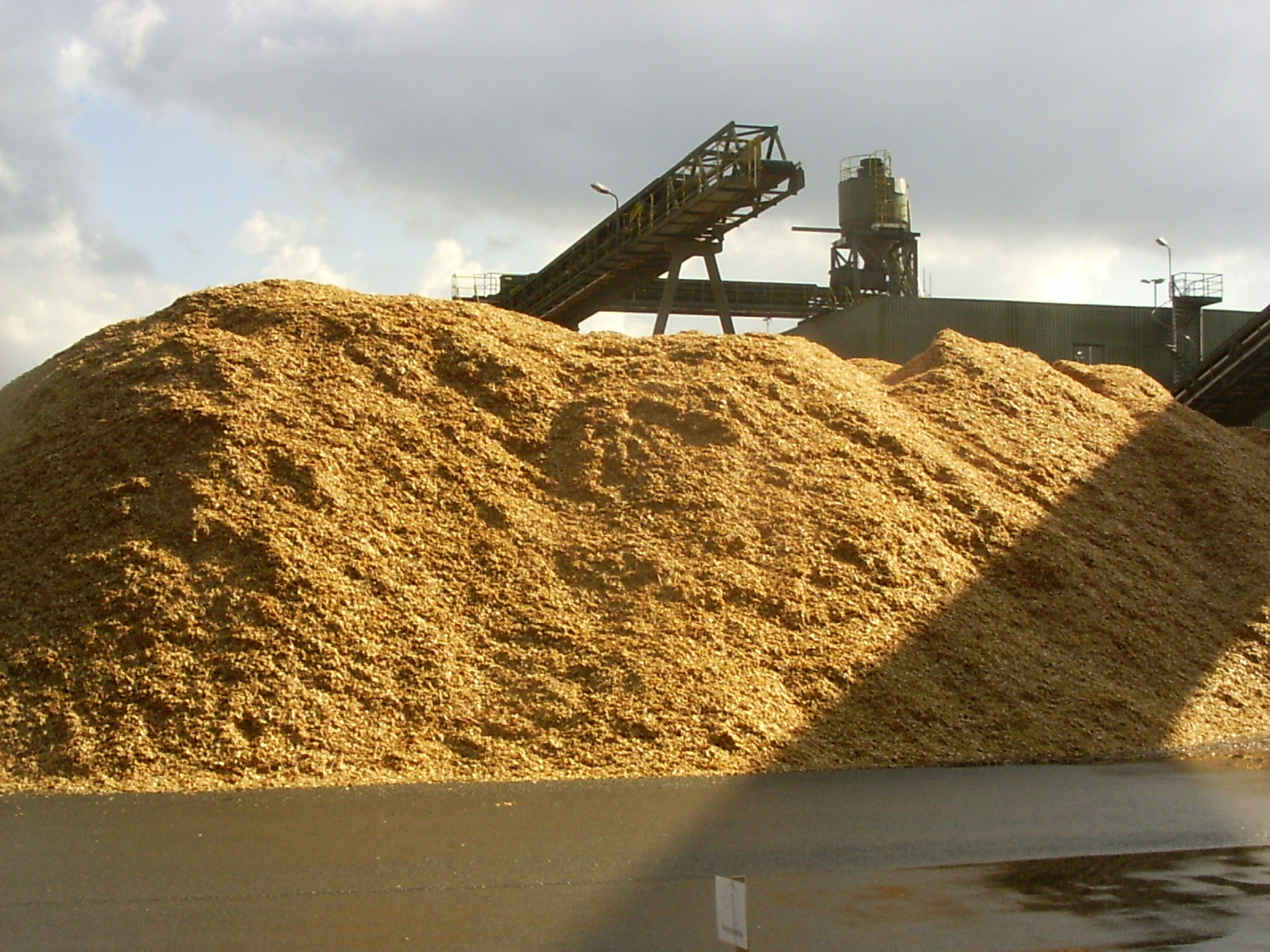 Pieces of wood to be used for paper production